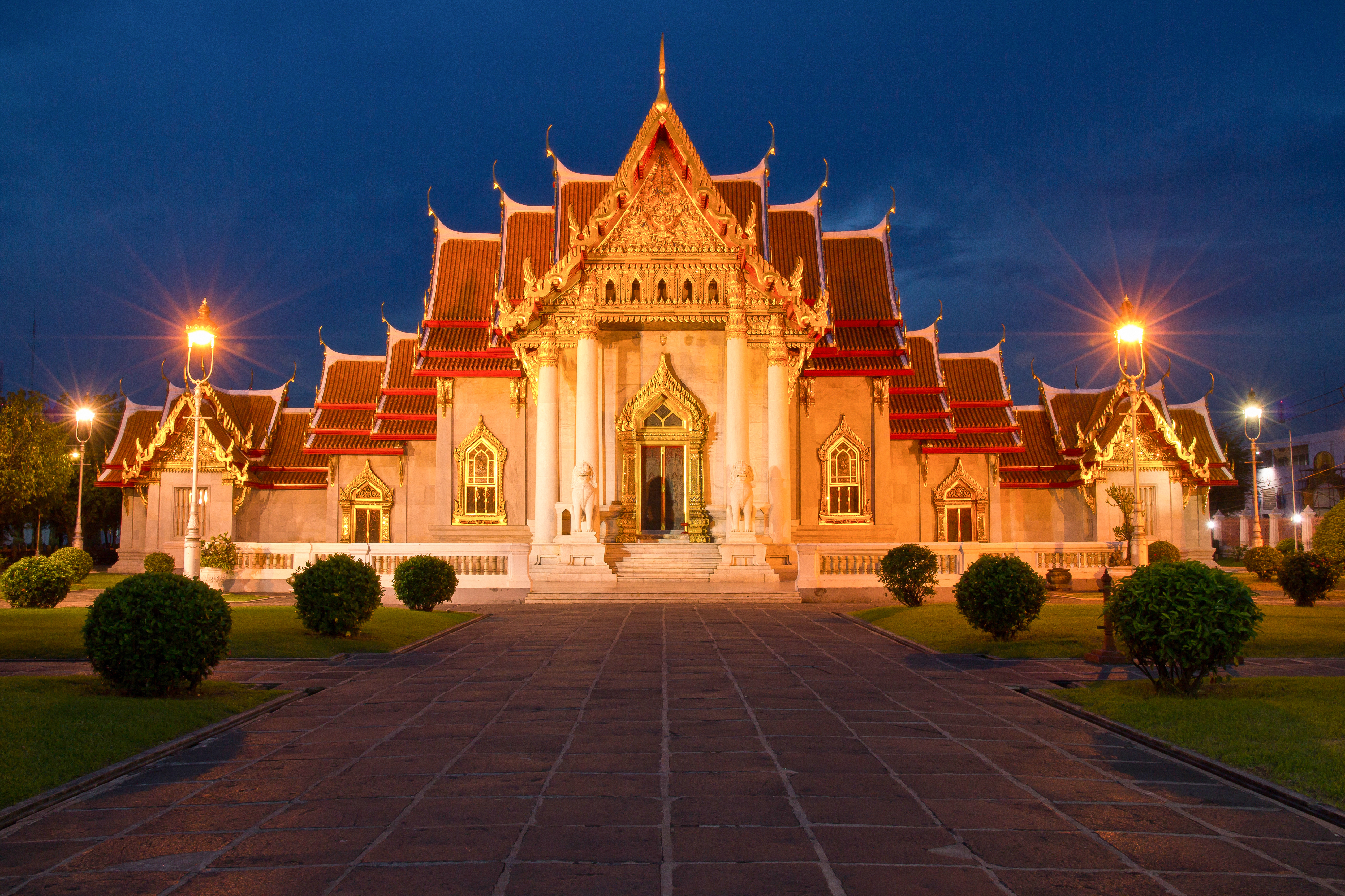 Wat Benchamabophit Dusit Wanaram (วัดเบญจมบพิตรดุสิตวนาราม, "Temple of the Fifth King, the Temple of Dusit Park"), also known as the Marble Temple, Dusit District, Bangkok.